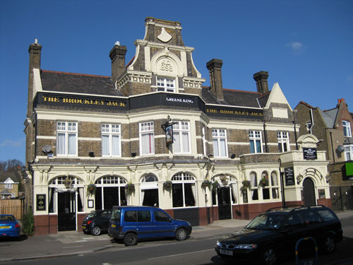 The Brockley Jack pub, Crofton Park (built in 1898)